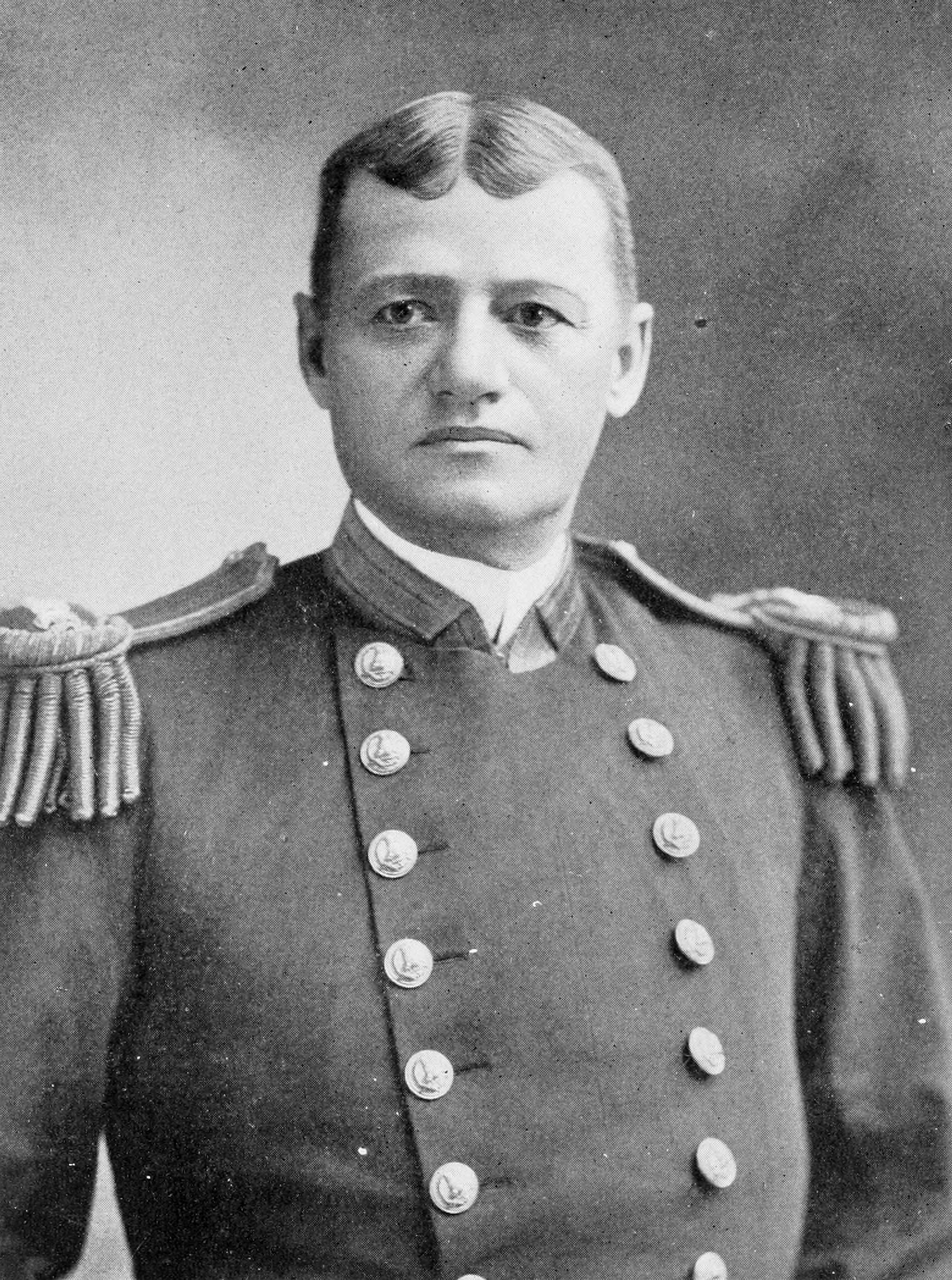 Robley D. Evans